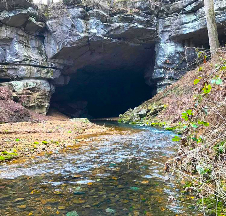 The Russell Cave National Monument in Bridgeport, AL.